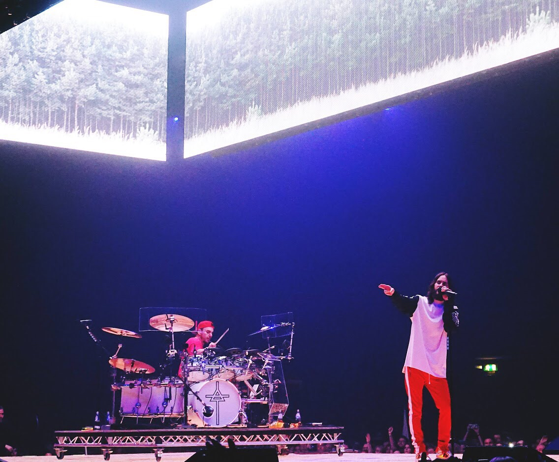 30 Seconds to Mars performing in Manchester, England on March 24, 2018